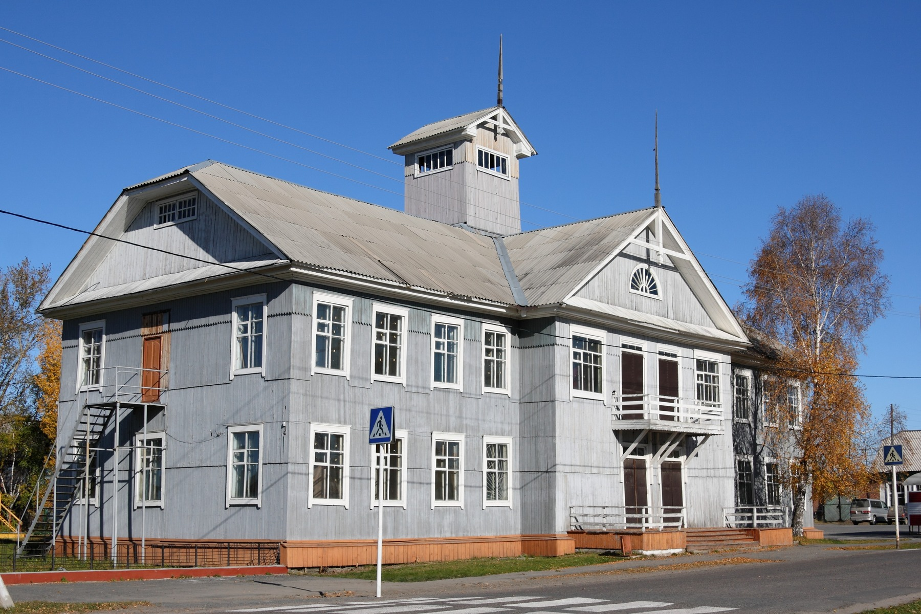 Wooden building in Kargasok, Tomsk oblast, Russia